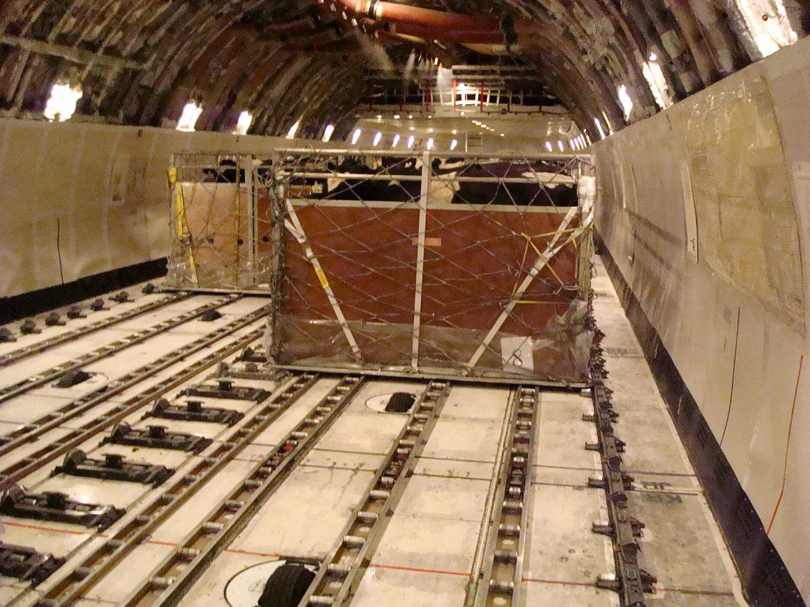 Cows in Boeing 747